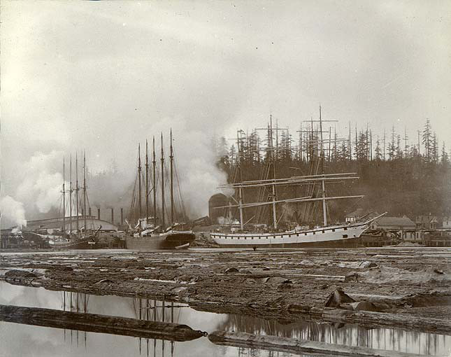 Shows left to right: schooner LYMAN D. FOSTER, schooner SNOW AND BURGESS, ship MADELAINE Subjects (LCTGM): Mills--Washington (State)--Port Blakely; Lumber industry--Washington (State)--Port Blakely; Logs--Washington (State)--Port Blakely; Sailing ships--Washington (State)--Port Blakely Subjects (LCSH): Madelaine (Sailing ship); Lyman D. Foster (Schooner); Snow and Burgess (Schooner); Schooners--Washington (State)--Port Blakely